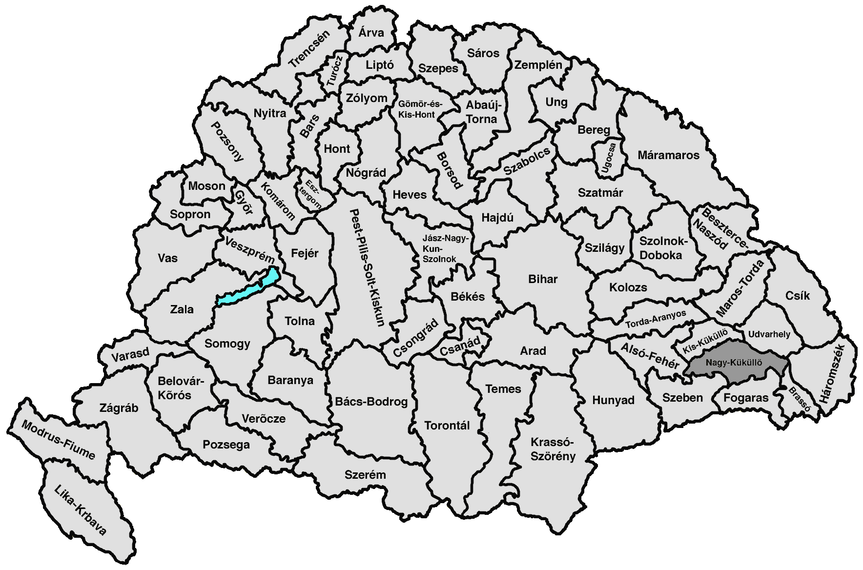 own edit of Image:Zala.png